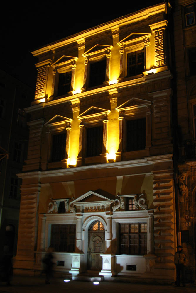 Category:Bandinelli Palace in L'viv at night